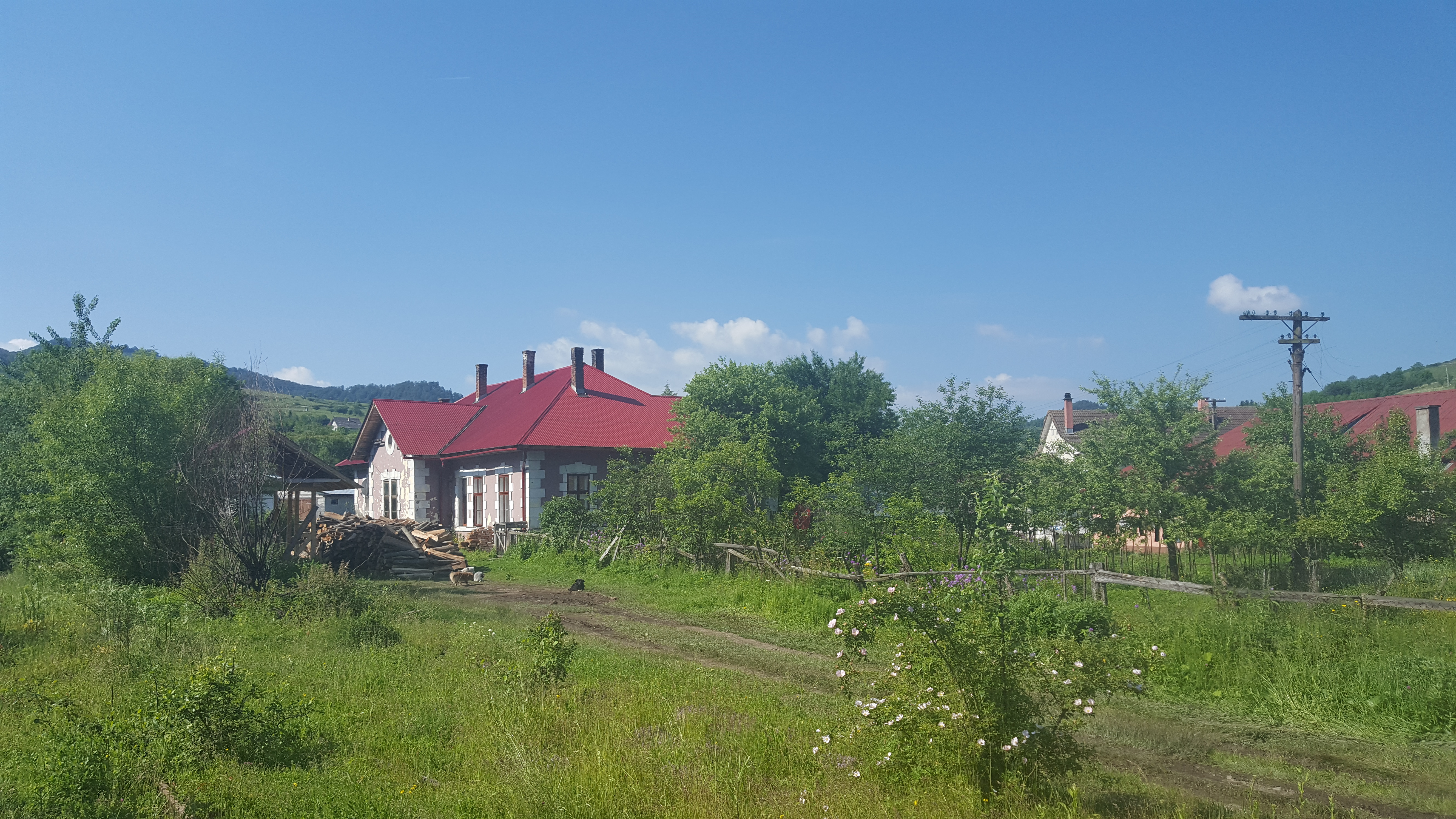 One of the buildings of a narrow-gauge train station in Abrud, Romania